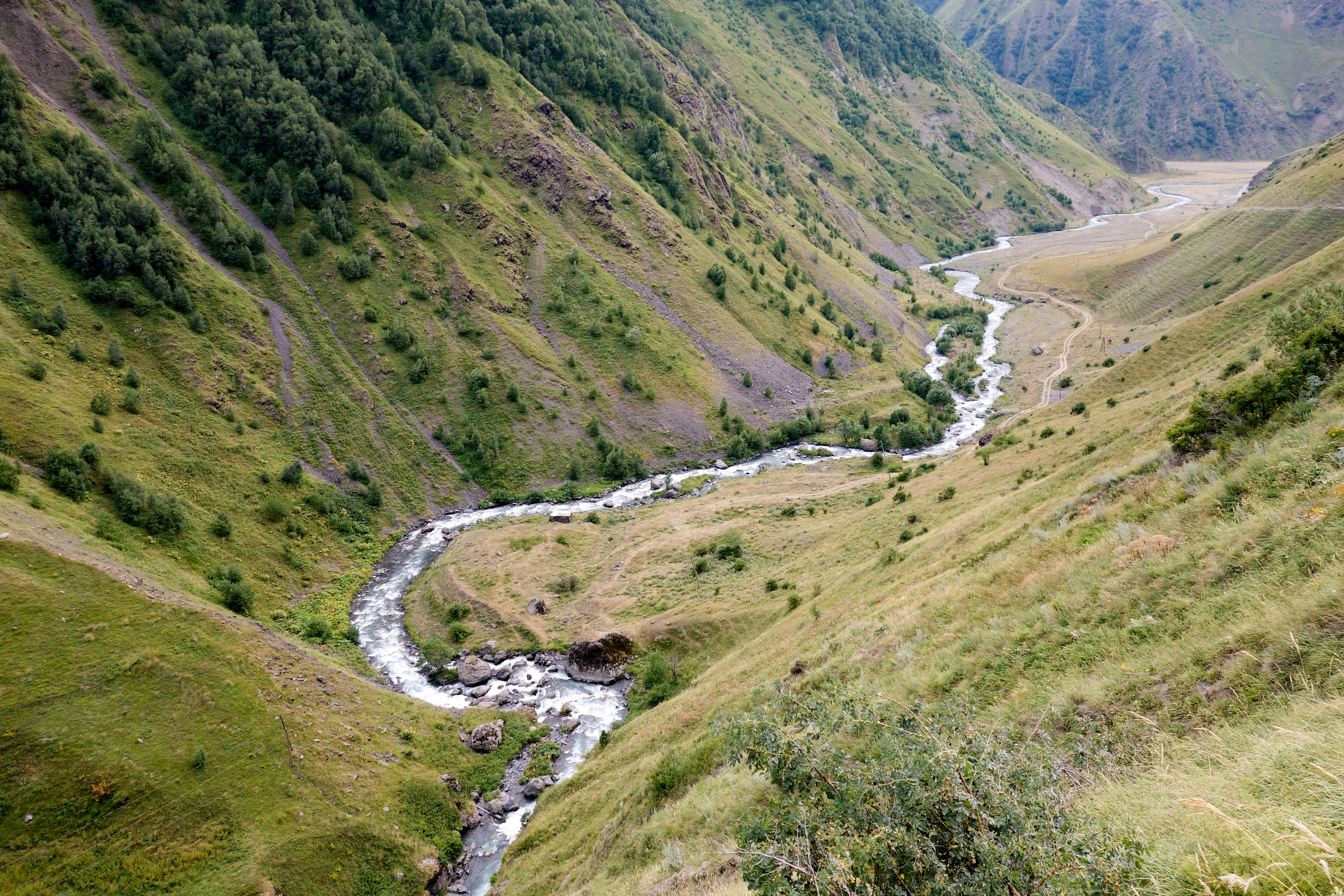 Downstream of Jutistskali River, Mtskheta-Mtianeti, Georgia